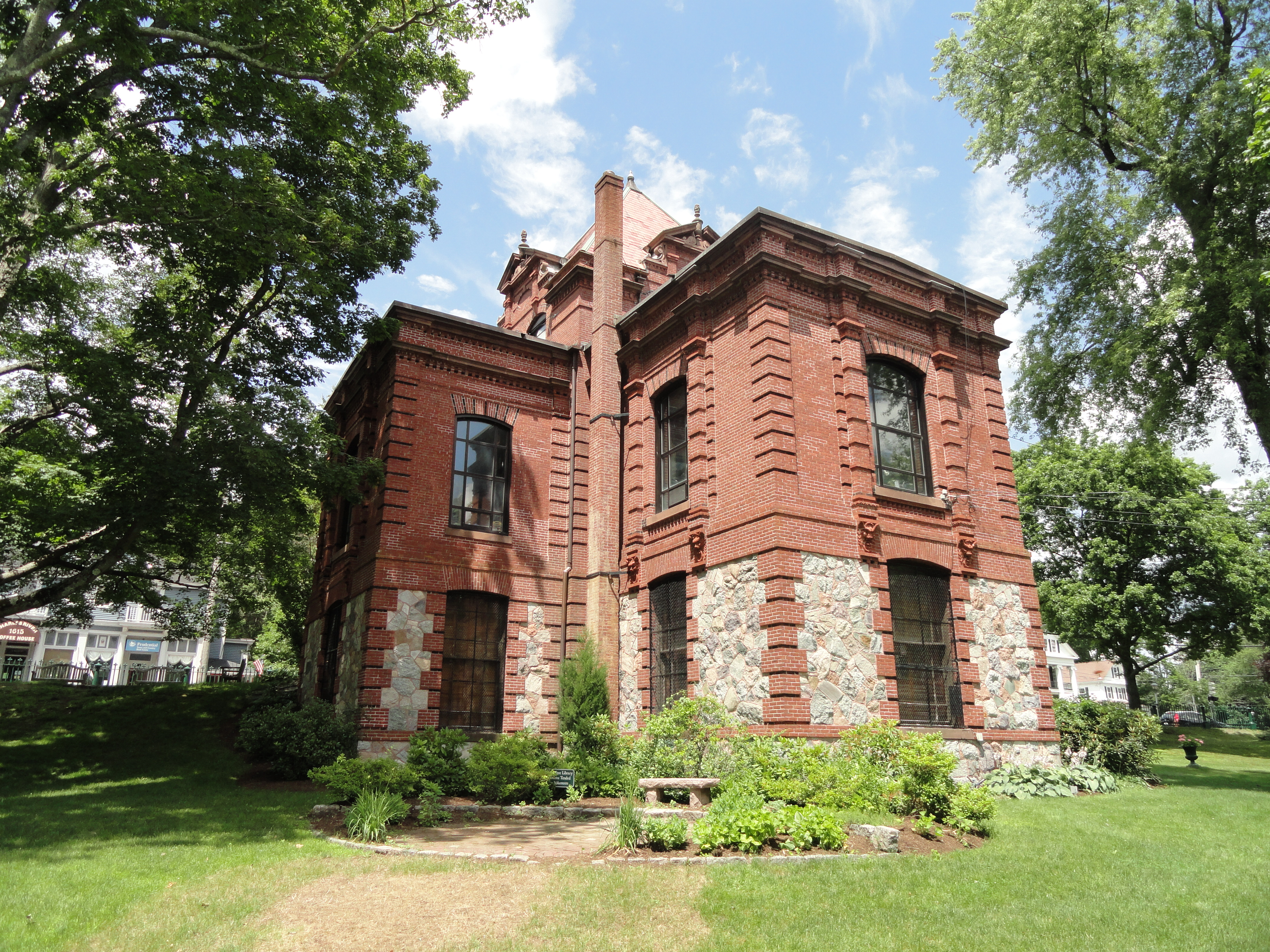 Bacon Free Library, 58 Eliot Street, South Natick, Massachusetts, USA. Opened in 1881.